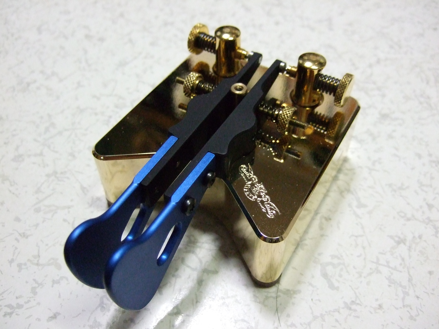 An iambic paddle, a kind of telegraph keys. "Begali Simplex Gold Blu" manufactured by Begali, Italy.